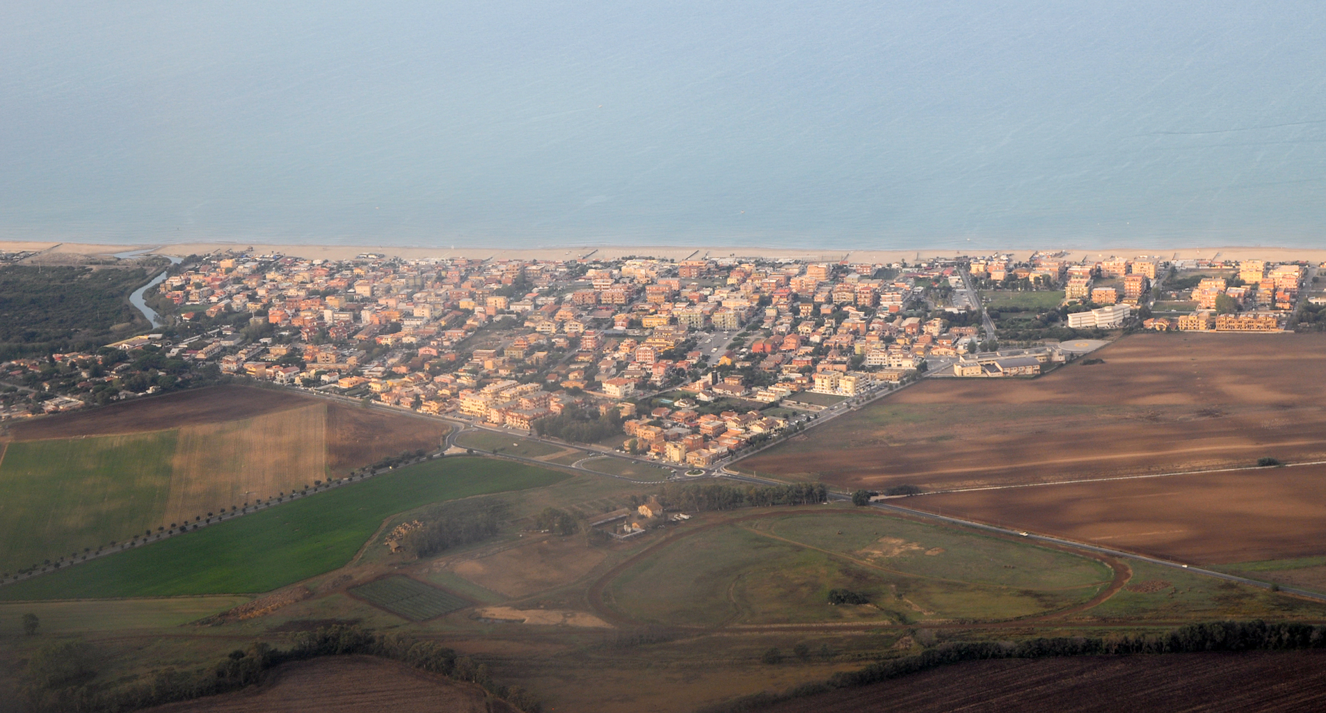 Aerial view of the coastal town of Passo Oscuro, located about 20 km west of Rome. The Tyrrhenian Sea is seen in the background.